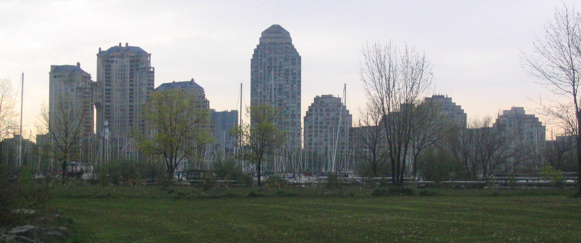 Photo taken of Towers south of Lake Shore Boulevard from Humber Bay Park West